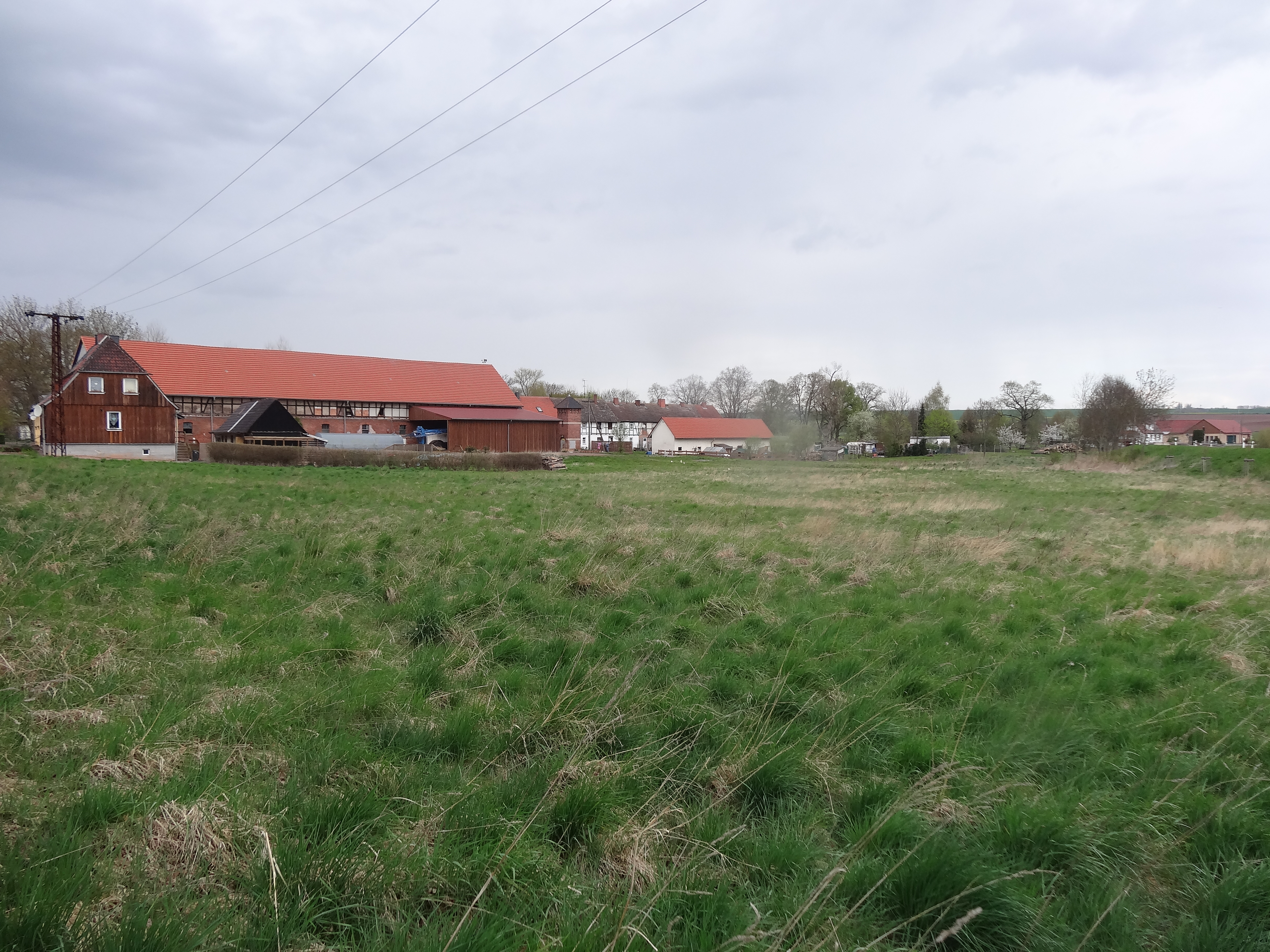 View on Kinderode, Thuringia, Germany